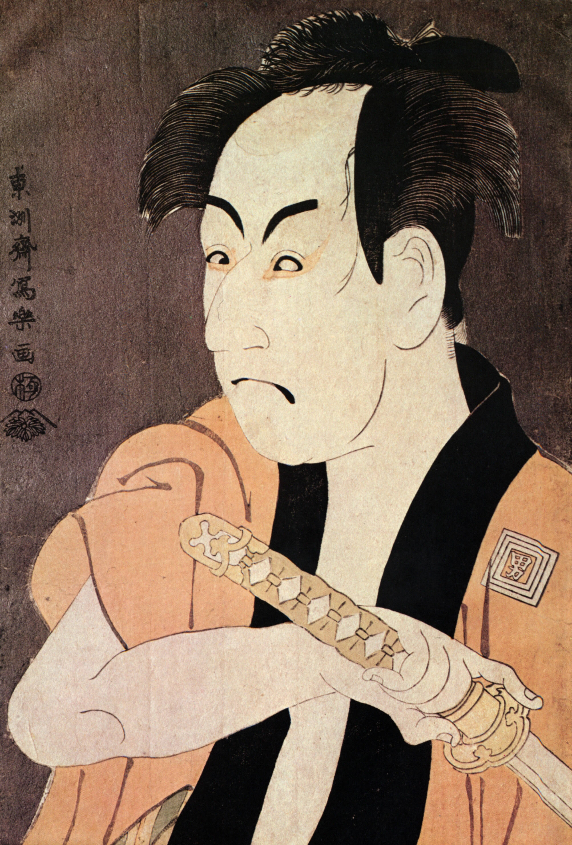 Omezō Ichikawa I as Yakko Ippei in Koi-nōbō Somewake Tazuna